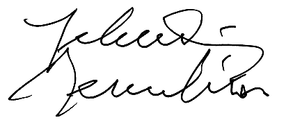 Signature of Yehudi Menuhin (from an autograph card)